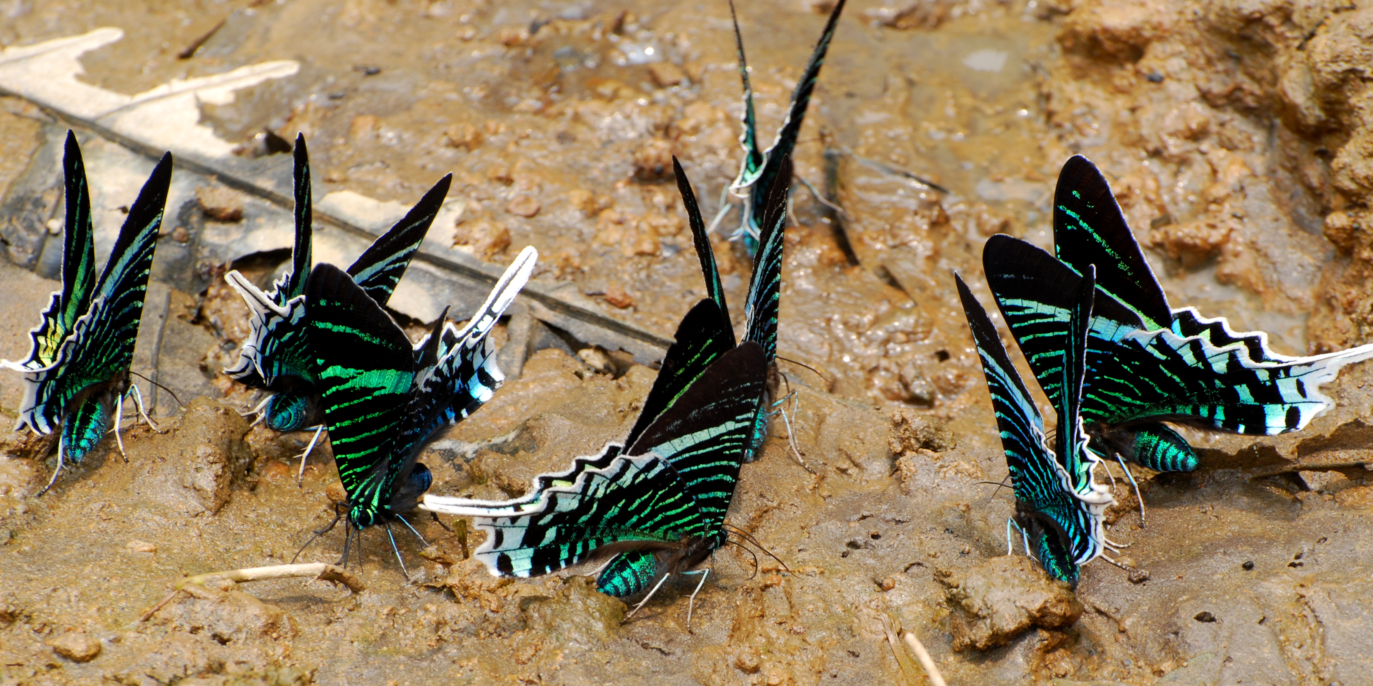 Seen at Yarina Lodge, on the banks of Rio Manduro, Napo Province, Ecuador.